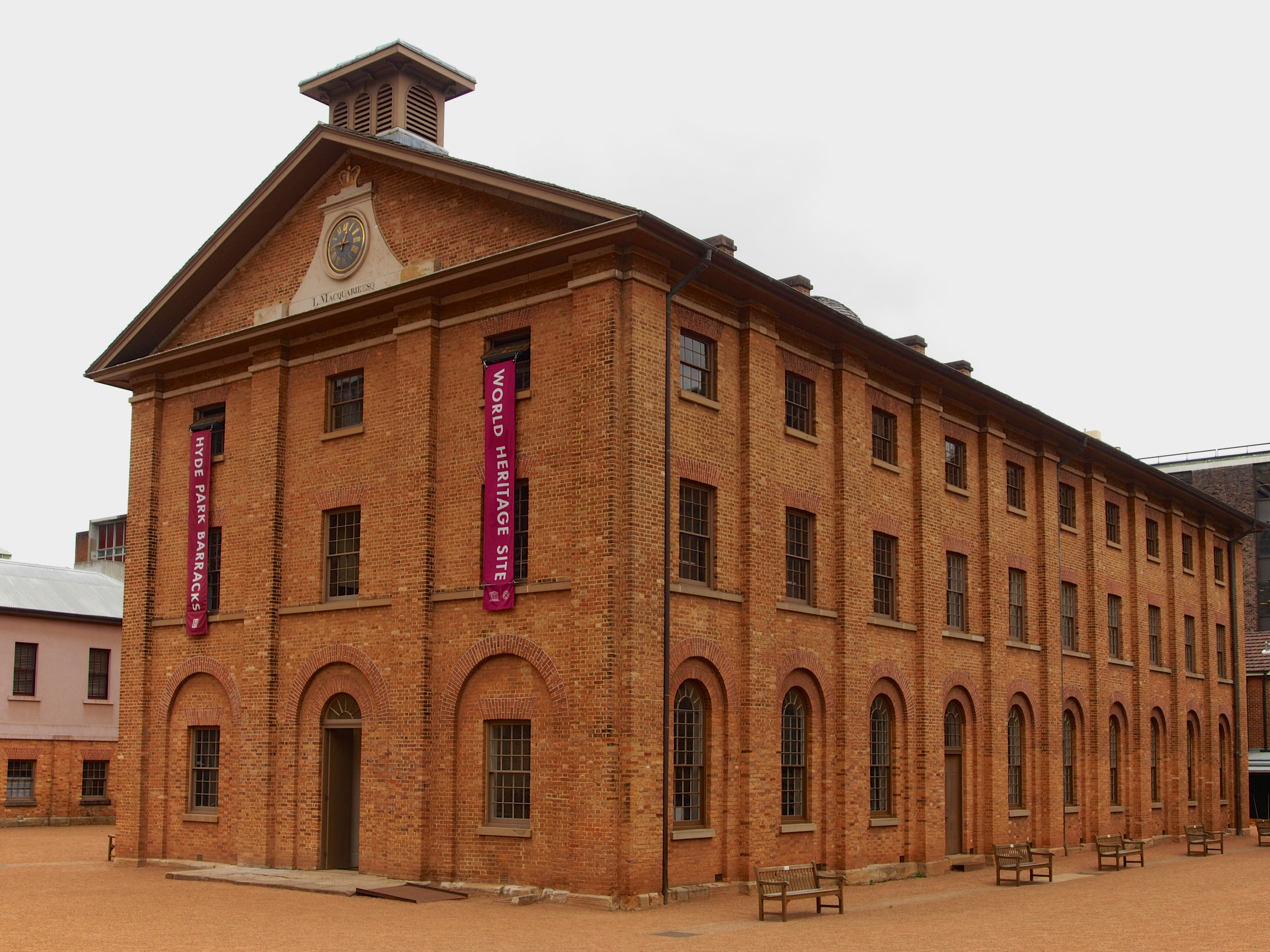 Hyde Park Barracks, Macquarie Street, Sydney, Australia